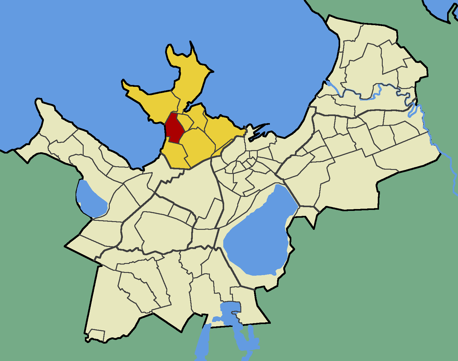 Map of Tallinn (Estonia) with borders of the quarters, Põhja-Tallinn district and Pelguranna quarter emphasised